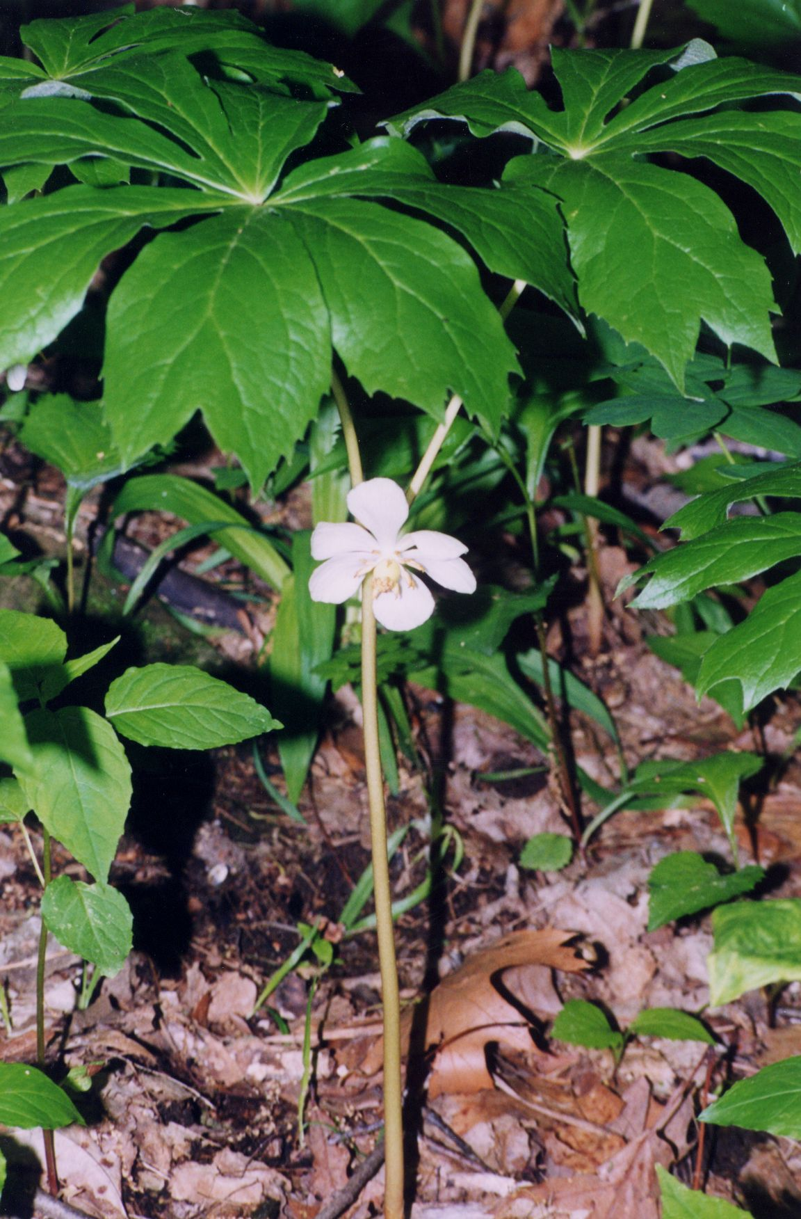 Podophyllum peltatum, Wild Cat Den State Park, Muscatine, Iowa